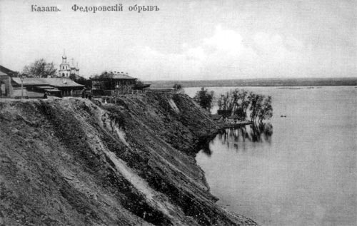 Trinity_Feodorovsky monastery in Kazan. After 1917 totally erased, a Lenin memorial built in its place.